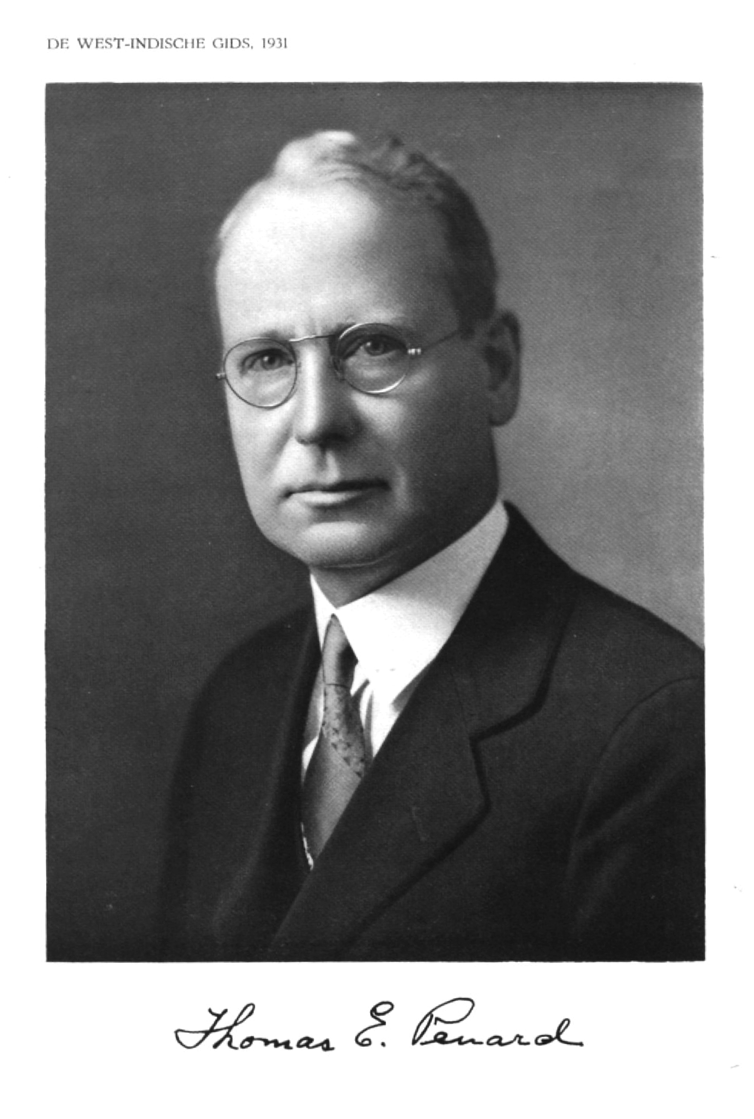 Thomas Edward Penard (1878-1938)